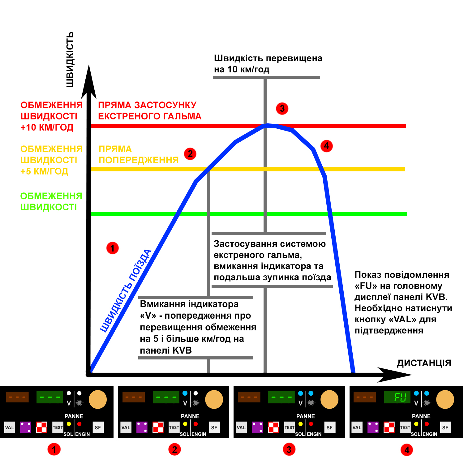 Speeding KVB